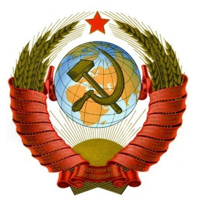 Emblem of the USSR 1958—1991